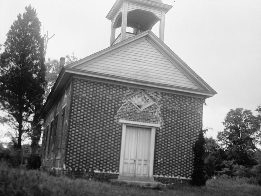 St. George's Church, State Route 178, Pungoteague (Accomack County, Virginia) cropped This file comes from the Historic American Buildings Survey (HABS), Historic American Engineering Record (HAER) or Historic American Landscapes Survey (HALS). These are programs of the National Park Service established for the purpose of documenting historic places. Records consist of measured drawings, archival photographs, and written reports. When reusing please credit: Library of Congress, Prints & Photographs Division, VA,1-PUNG,1-1 This tag does not indicate the copyright status of the attached work. A normal copyright tag is still required. See Commons:Licensing. This work is in the public domain in the United States because it is a work prepared by an officer or employee of the United States Government as part of that person’s official duties under the terms of Title 17, Chapter 1, Section 105 of the US Code. Note: This only applies to original works of the Federal Government and not to the work of any individual U.S. state, territory, commonwealth, county, municipality, or any other subdivision. This template also does not apply to postage stamp designs published by the United States Postal Service since 1978. (See § 313.6(C)(1) of Compendium of U.S. Copyright Office Practices). It also does not apply to certain US coins; see The US Mint Terms of Use. This file has been identified as being free of known restrictions under copyright law, including all related and neighboring rights.